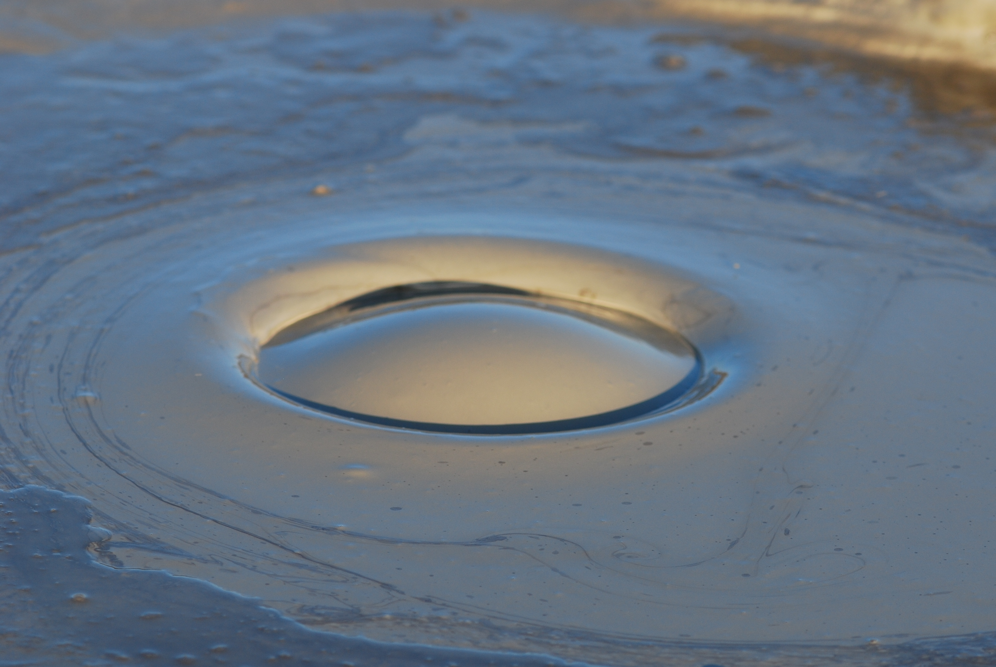 Mud volcano in the Berca reservation, Buzău County, Romania